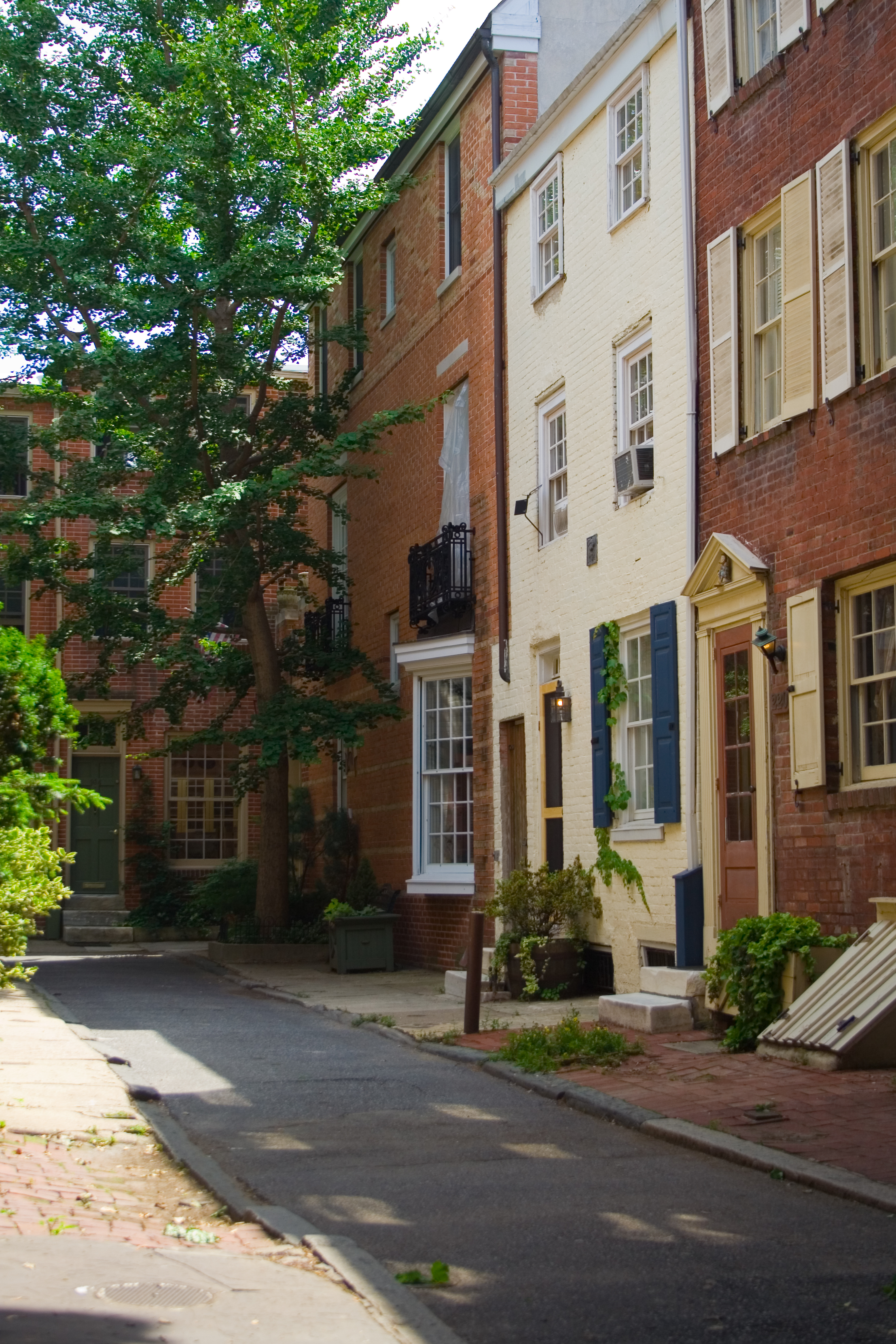 Rowhouse in Society Hill Philadelphia, Pennsylvania